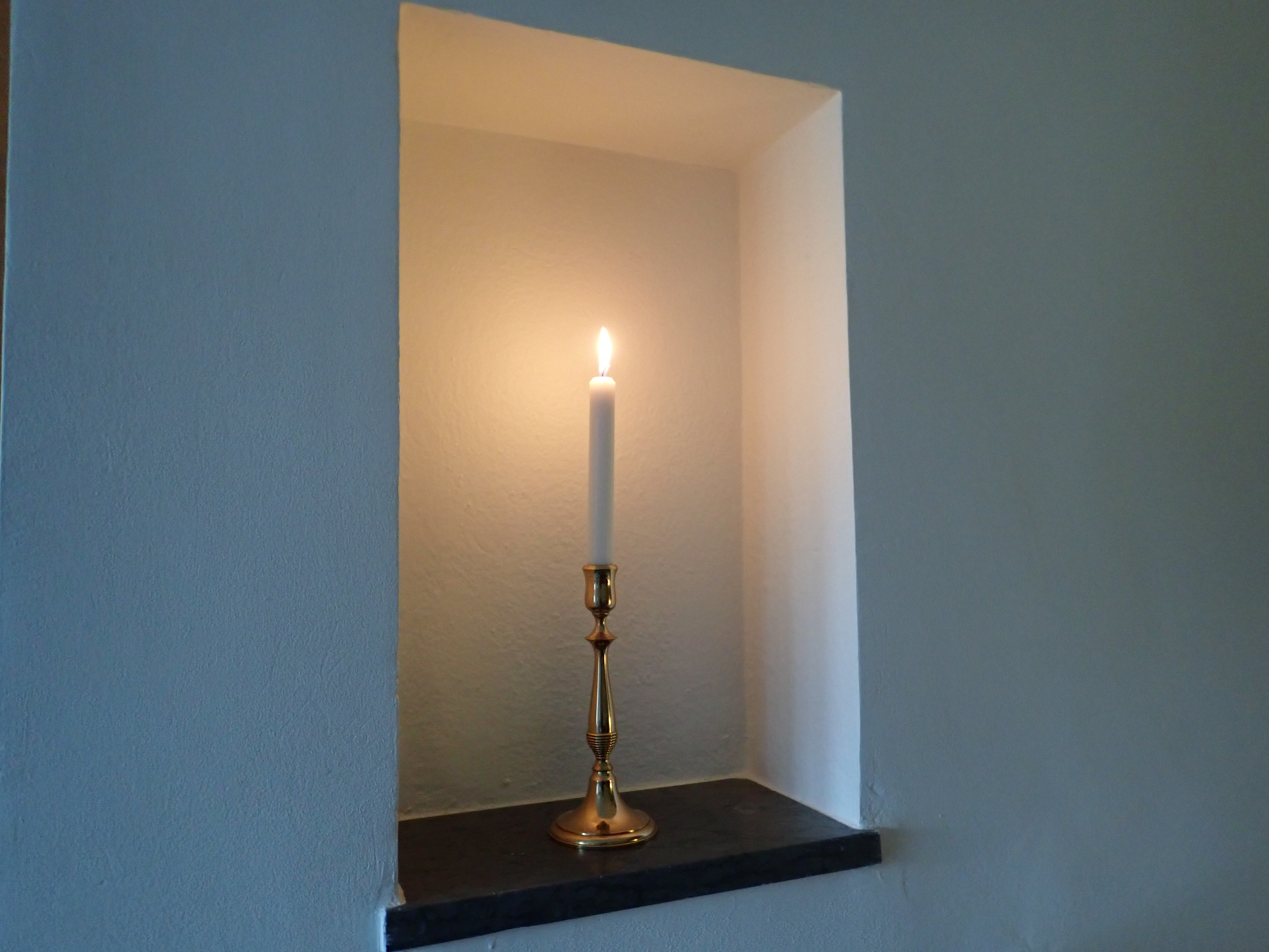 Candlestick designed by Gunnar Ander for Ystad-Metall